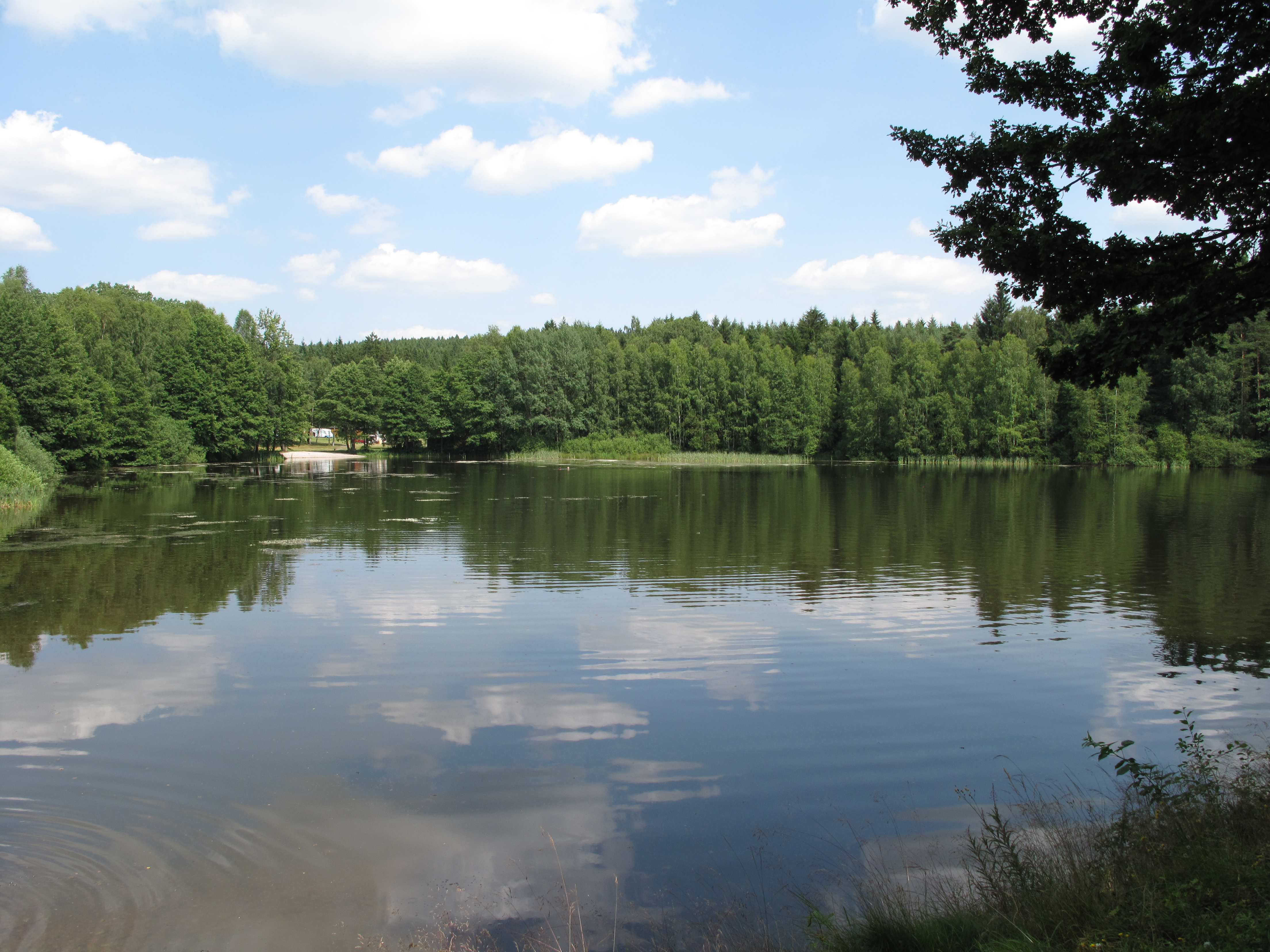 Trnovský Pond, okres Rokycany, Czech Republic.